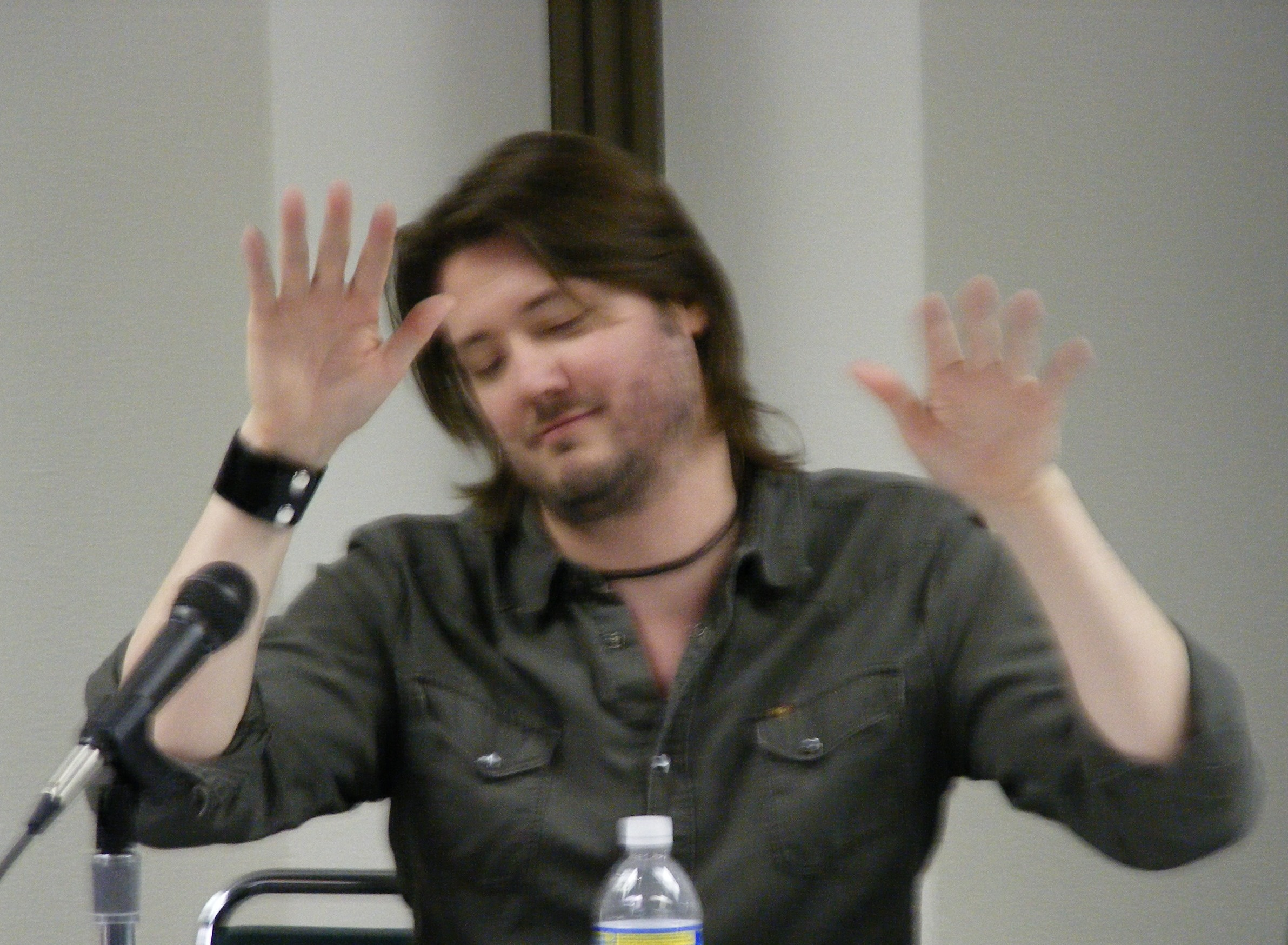 John Cassaday at Wizard World-Texas. 2008.